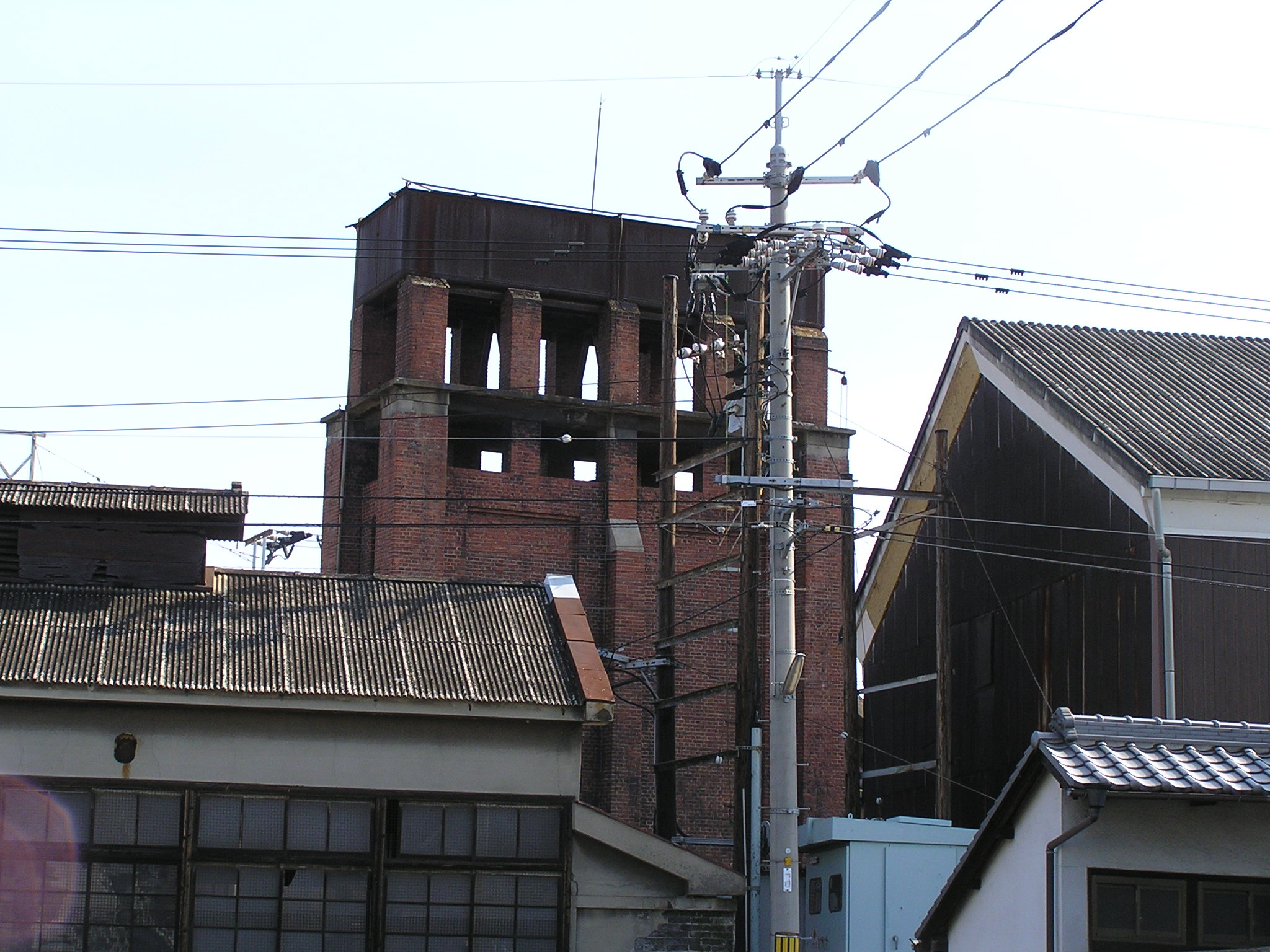 Chimney of Seishoku industry